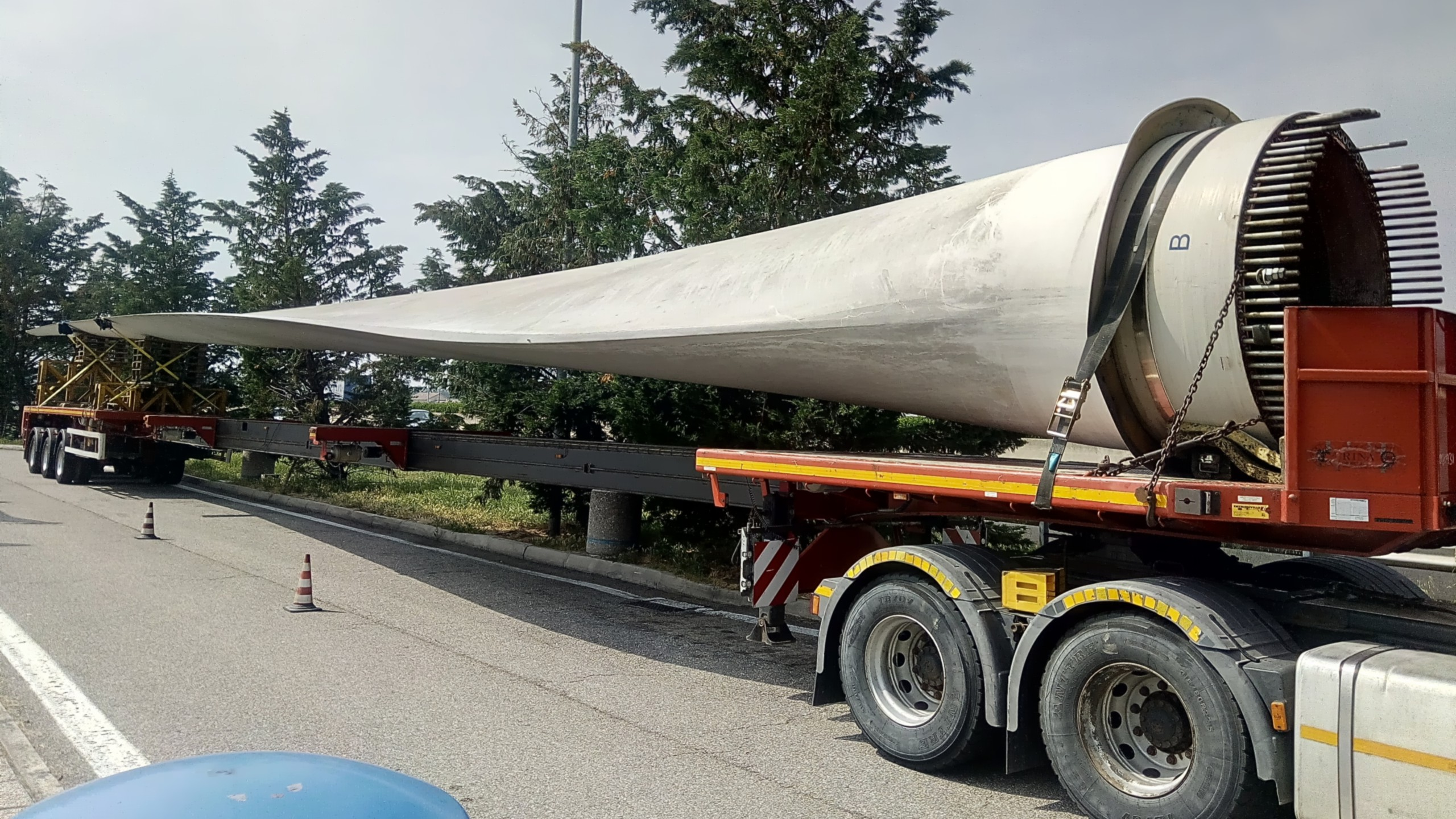 Windmill on trailer coupled to the tractor (exceptional transport)